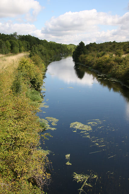 Cut-off Channel near Feltwell The Cut-off Channel links the River Lark near Mildenhall, with the tidal river Great Ouse at Denver Sluice, via the Relief Channel. At times of flood it takes waters from the Lark, Little Ouse and Wissey rivers. The channel was completed in 1964. Here, it is viewed from Corkway Drove, looking north-eastwards towards Feltwell.